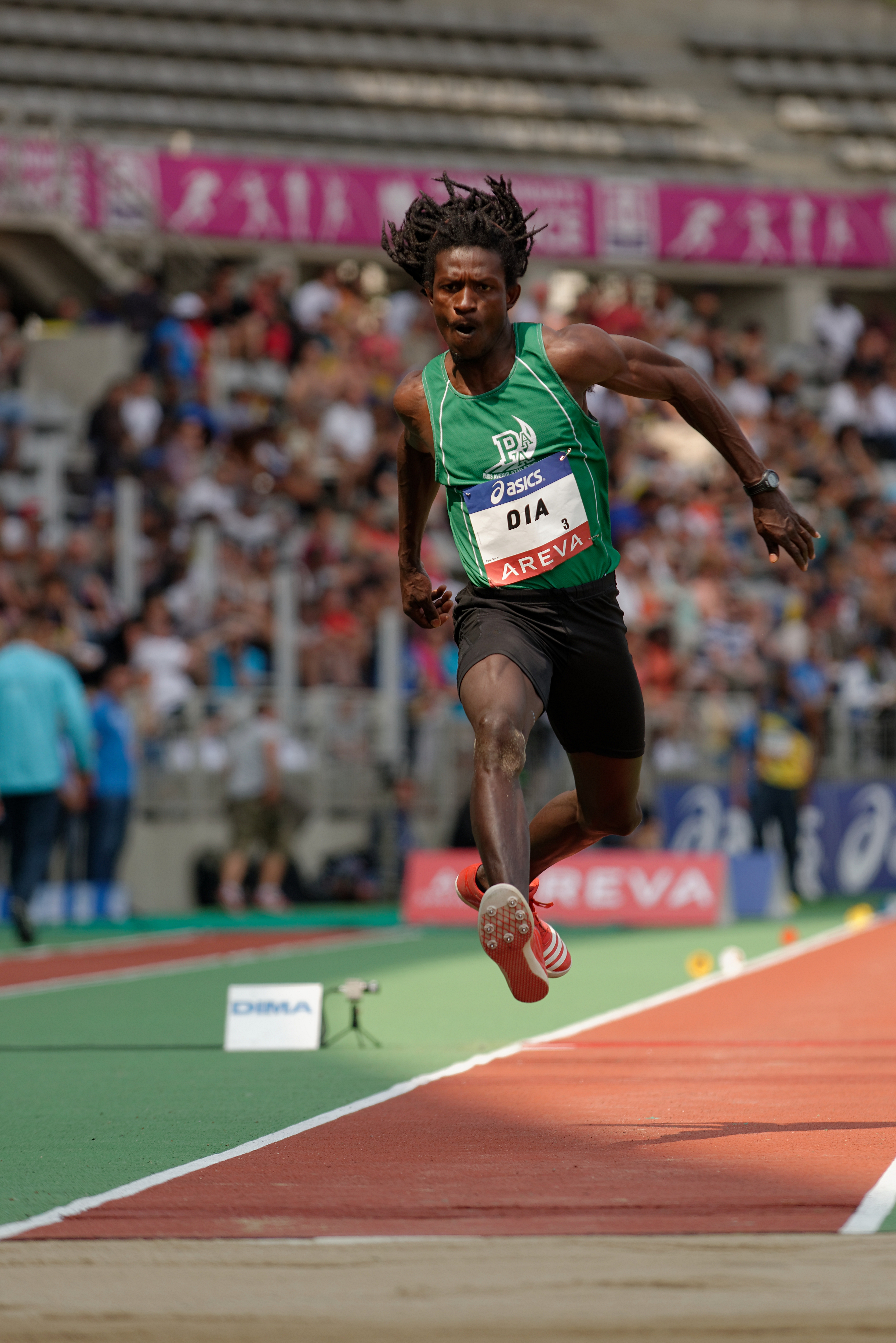 Chérif Dia competes in the men's triple jump final during the French Athletics Championships 2013 at Stade Charléty in Paris, 13 July 2013.